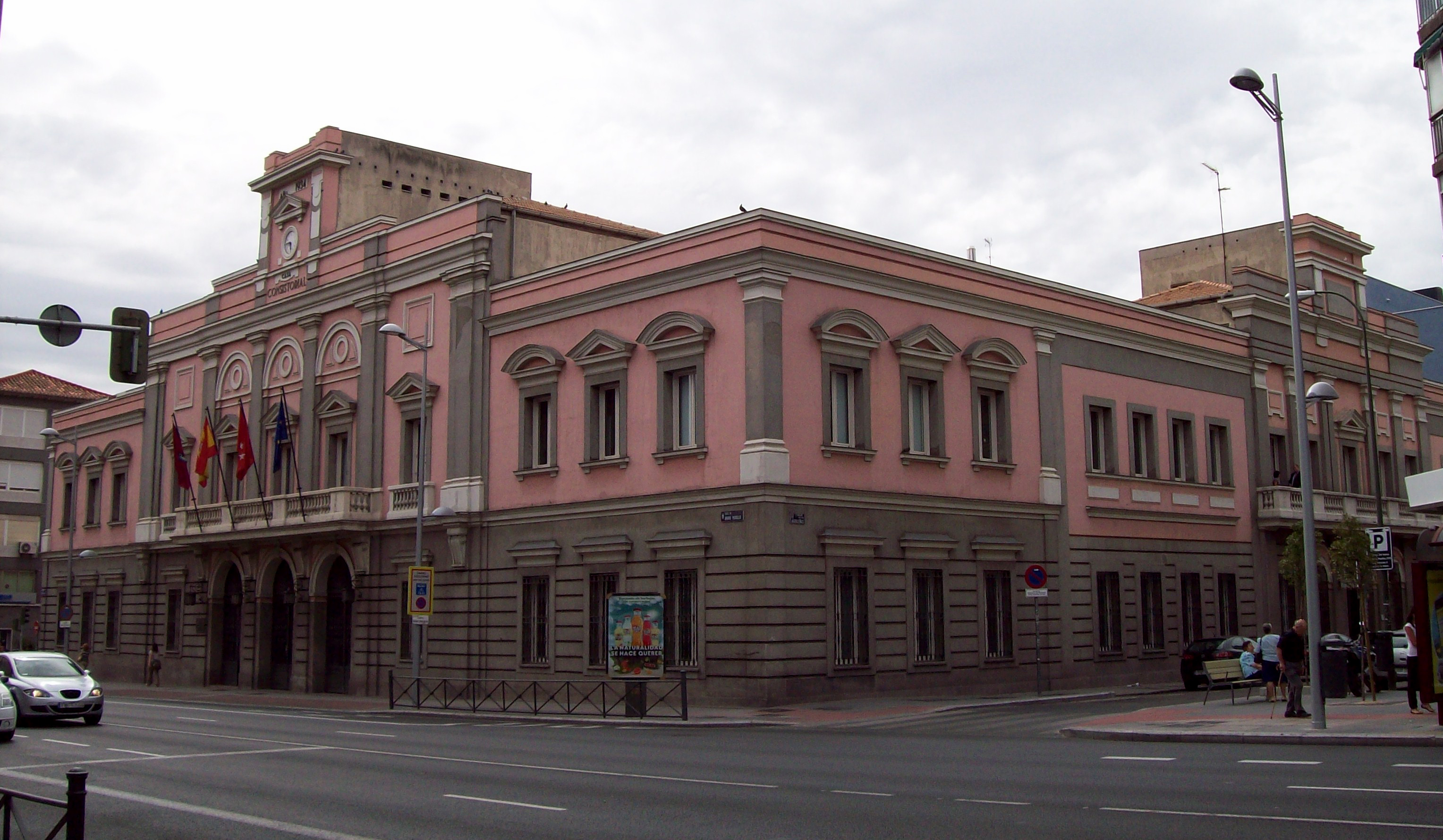 View of Tetuán District Hall in Madrid (Spain), at 357 Calle de Bravo Murillo (street). Building was projected in 1930 by José María Plaja Tobía and built from 1933 to 1934.